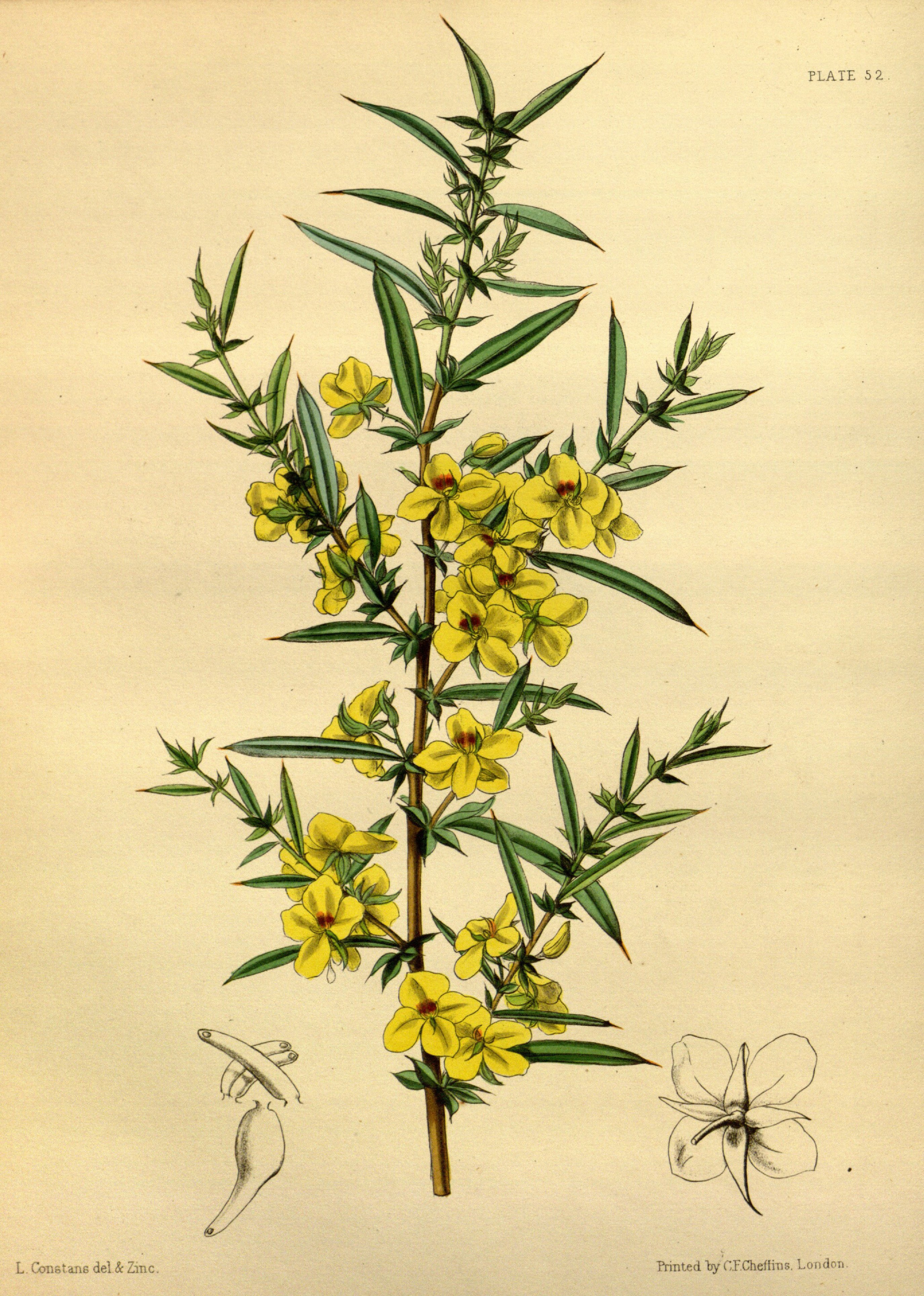 Labichea lanceolata Benth. Original Description Labichea diversifolia Meisn.